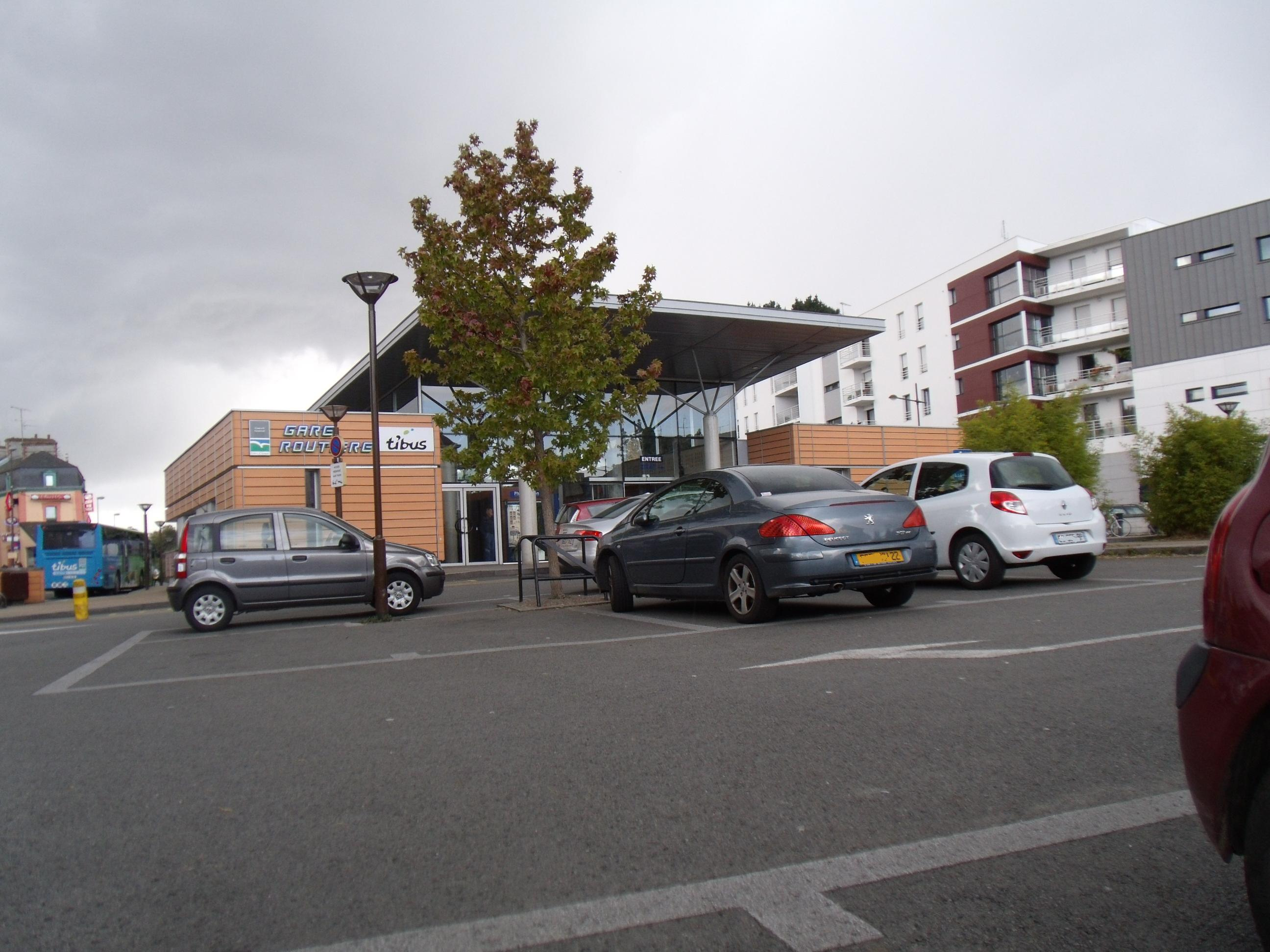 Lannion station from the parking